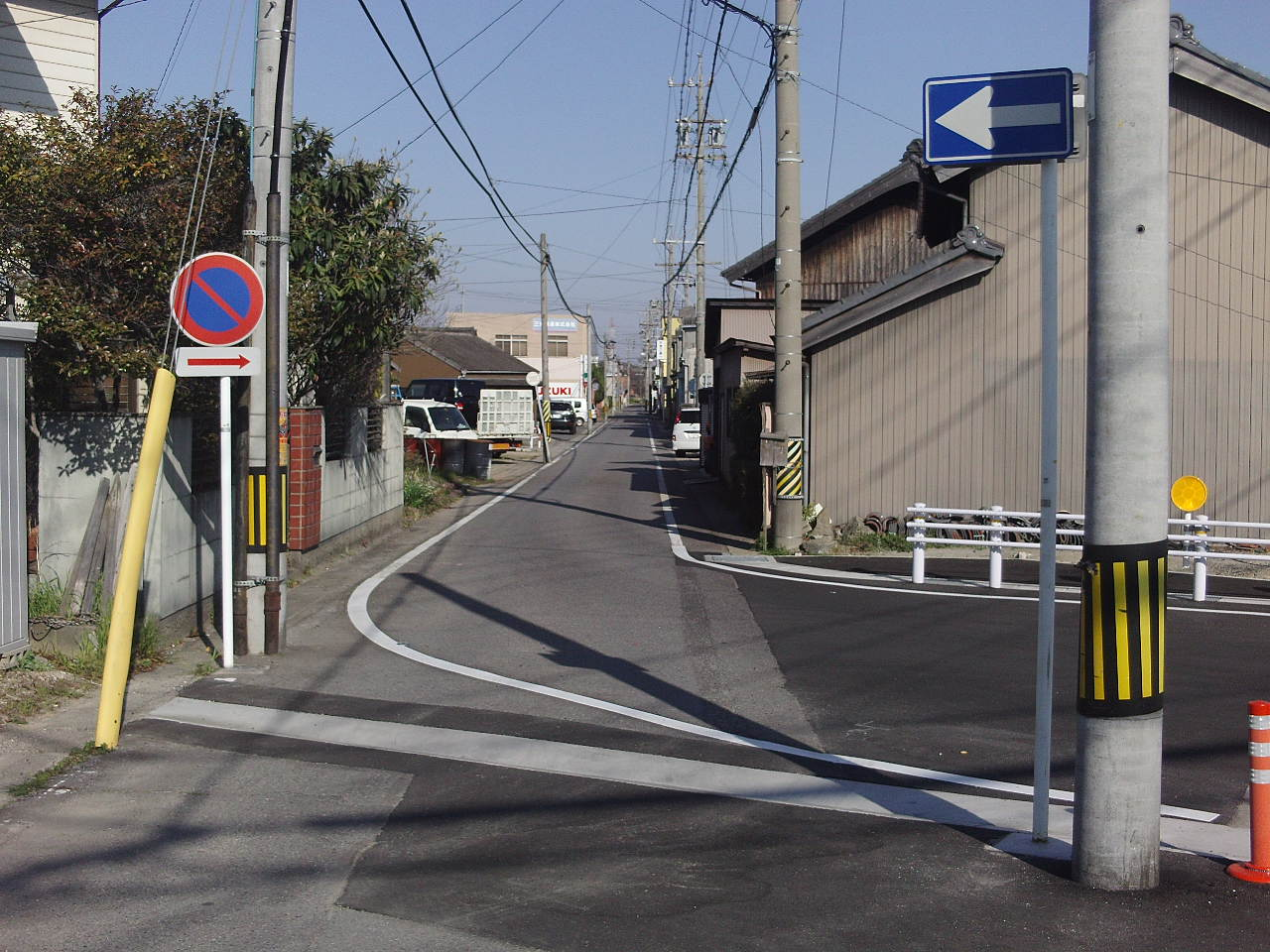 Aichi prefectural road No.307 in Shiohama-cho Hekinan, Aichi. This is old prefectural road.